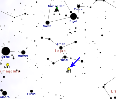 Map of M79